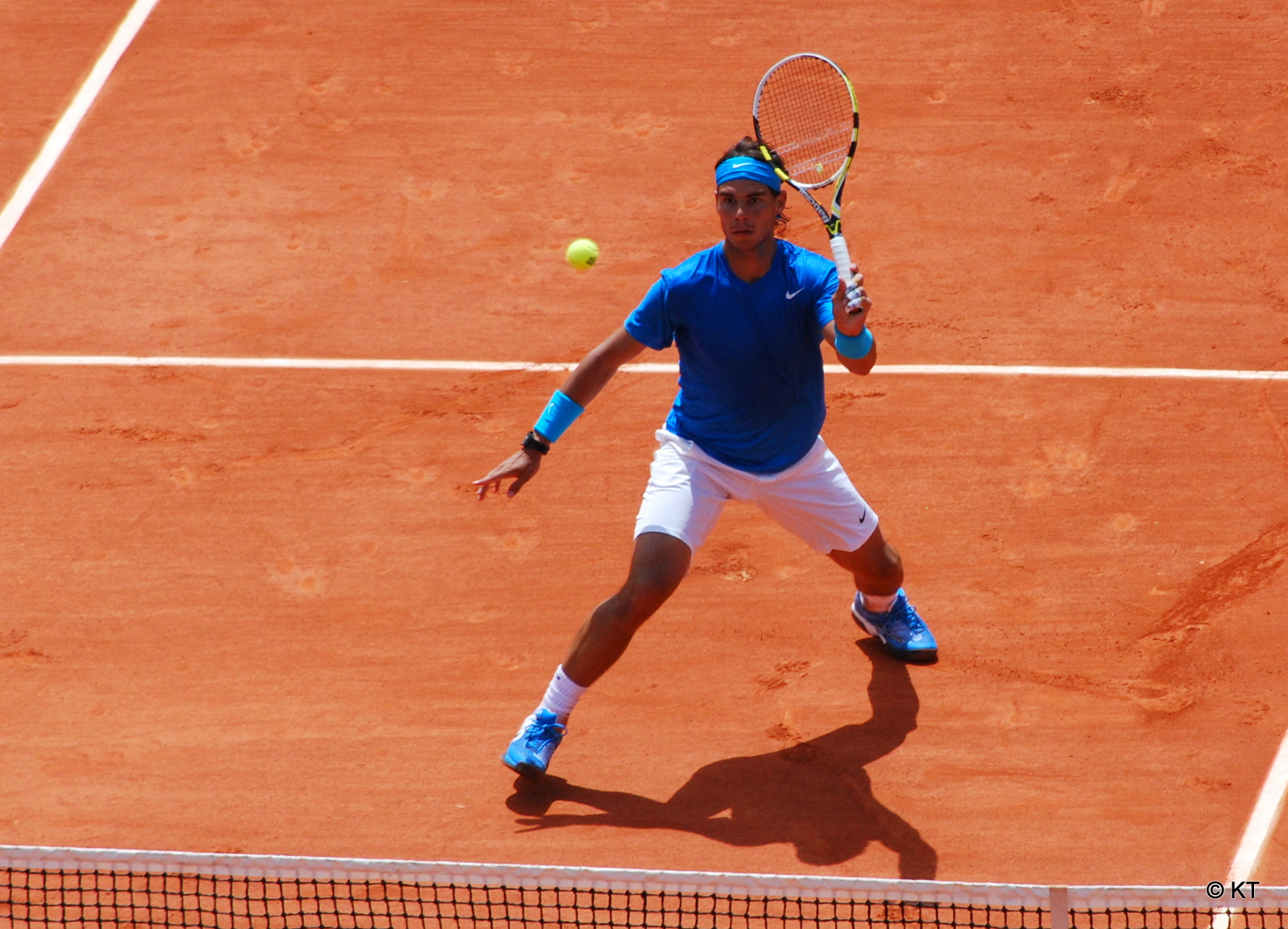 Rafael Nadal during his 3rd round match with Antonio Veic. Nadal won 6-1, 6-3, 6-0. Roland Garros 2011.